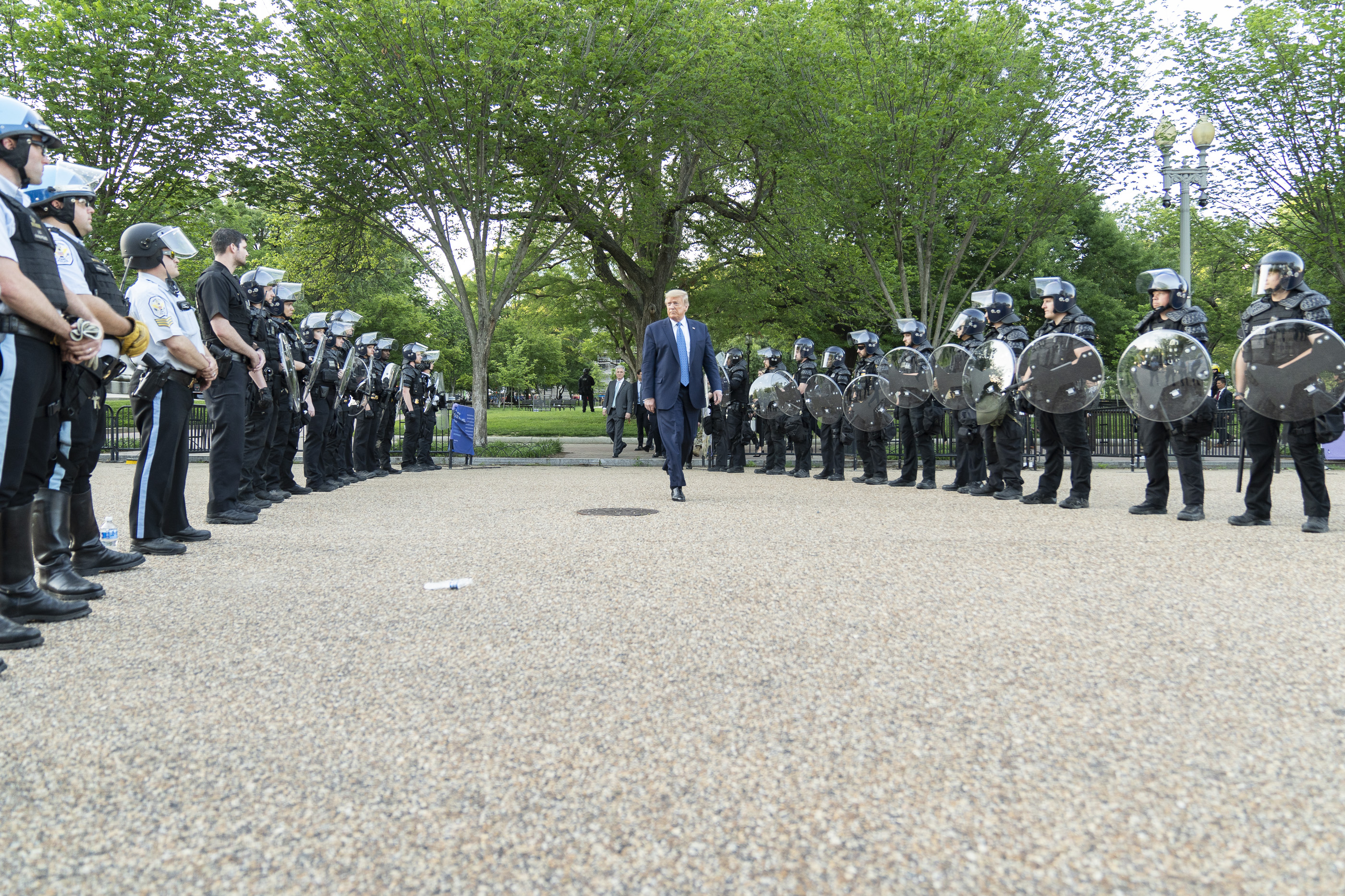 President Donald J. Trump walks from the White House Monday evening, June 1, 2020, to St. John’s Episcopal Church, known as the church of Presidents’s, that was damaged by fire during demonstrations in nearby LaFayette Square Sunday evening. (Official White House Photo by Shealah Craighead)